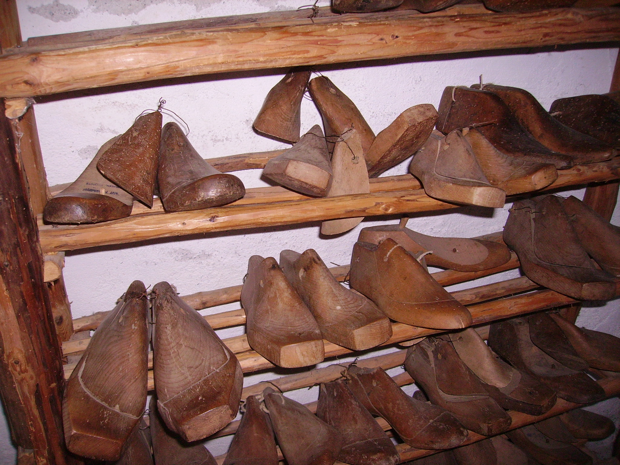 Freilichtmuseum Salzburg in Austria